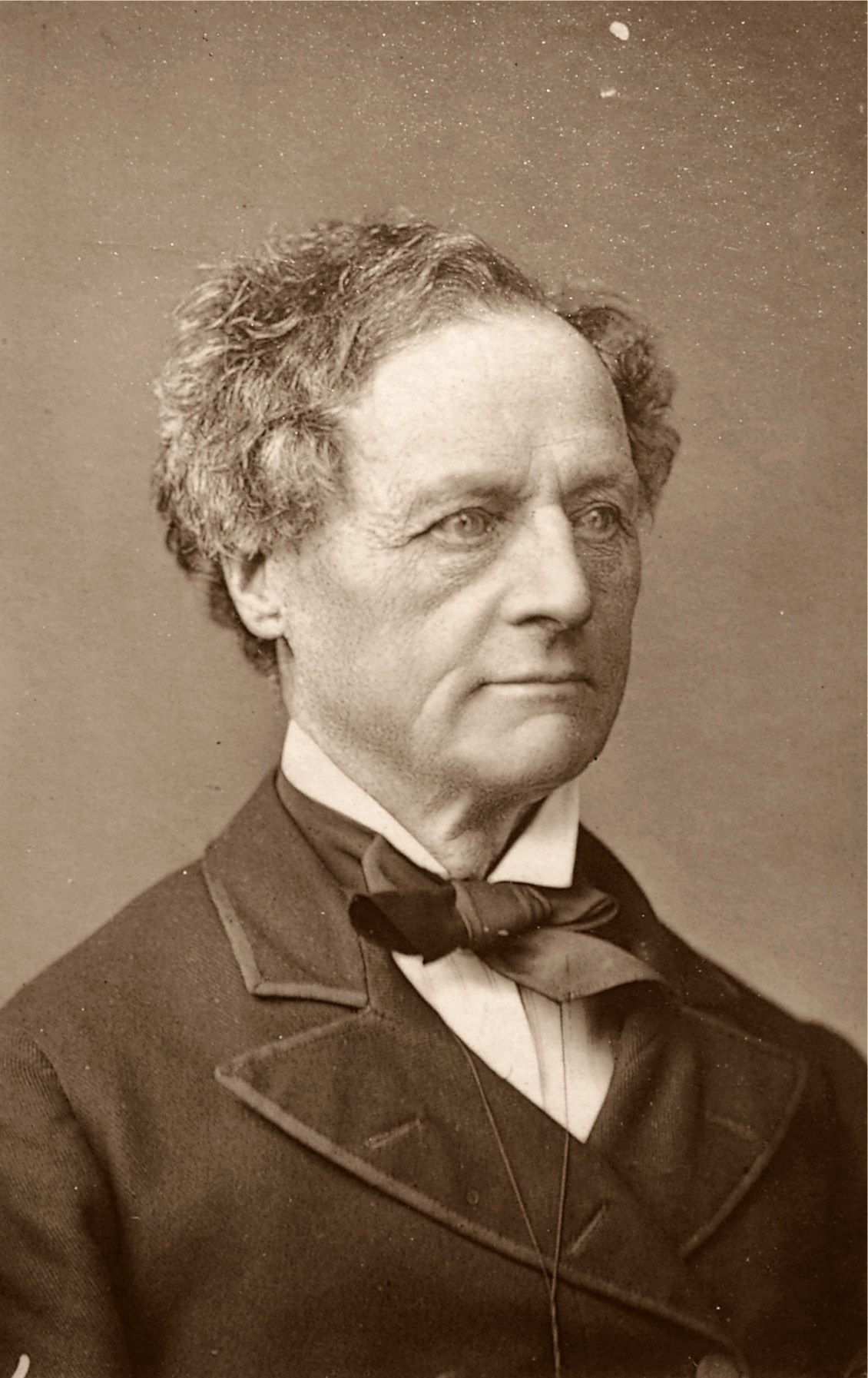 Henry Compton - Charles Mackenzie 1805-1877, English Actor.